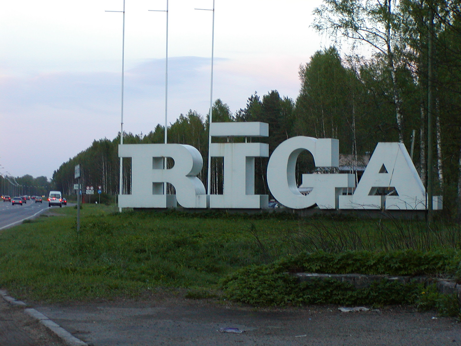 Soviet-style entrance to Riga